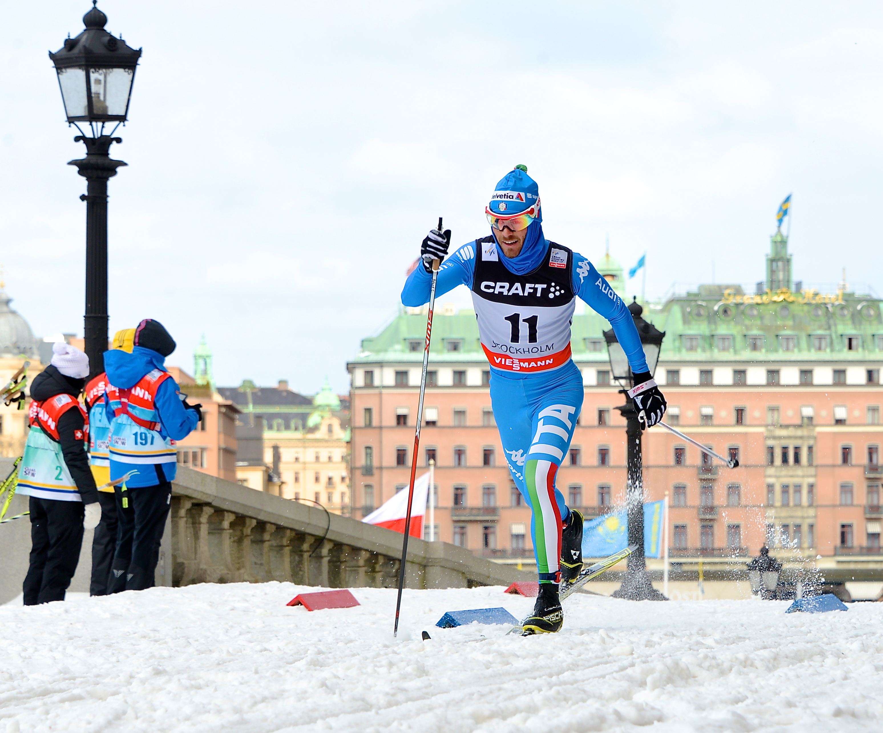 Roland Clara at the Royal Palace Sprint, part of the FIS World Cup 2012/2013, in Stockholm on March 20, 2013.